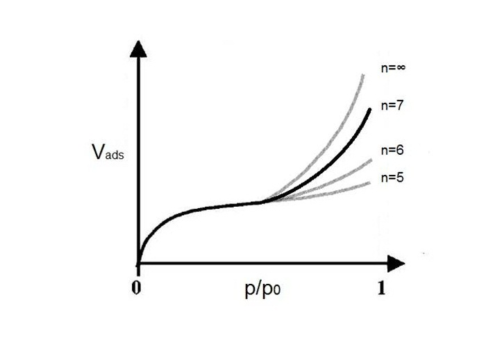 Multilayer BET isotherm plot